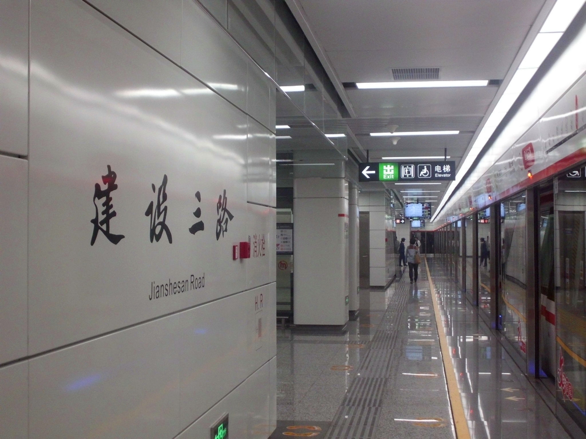 Jianshesan Road Station